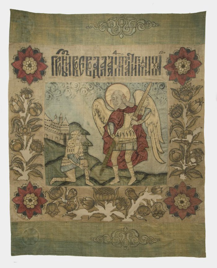 Flag of Yermak Timofeyevich 1581-1582